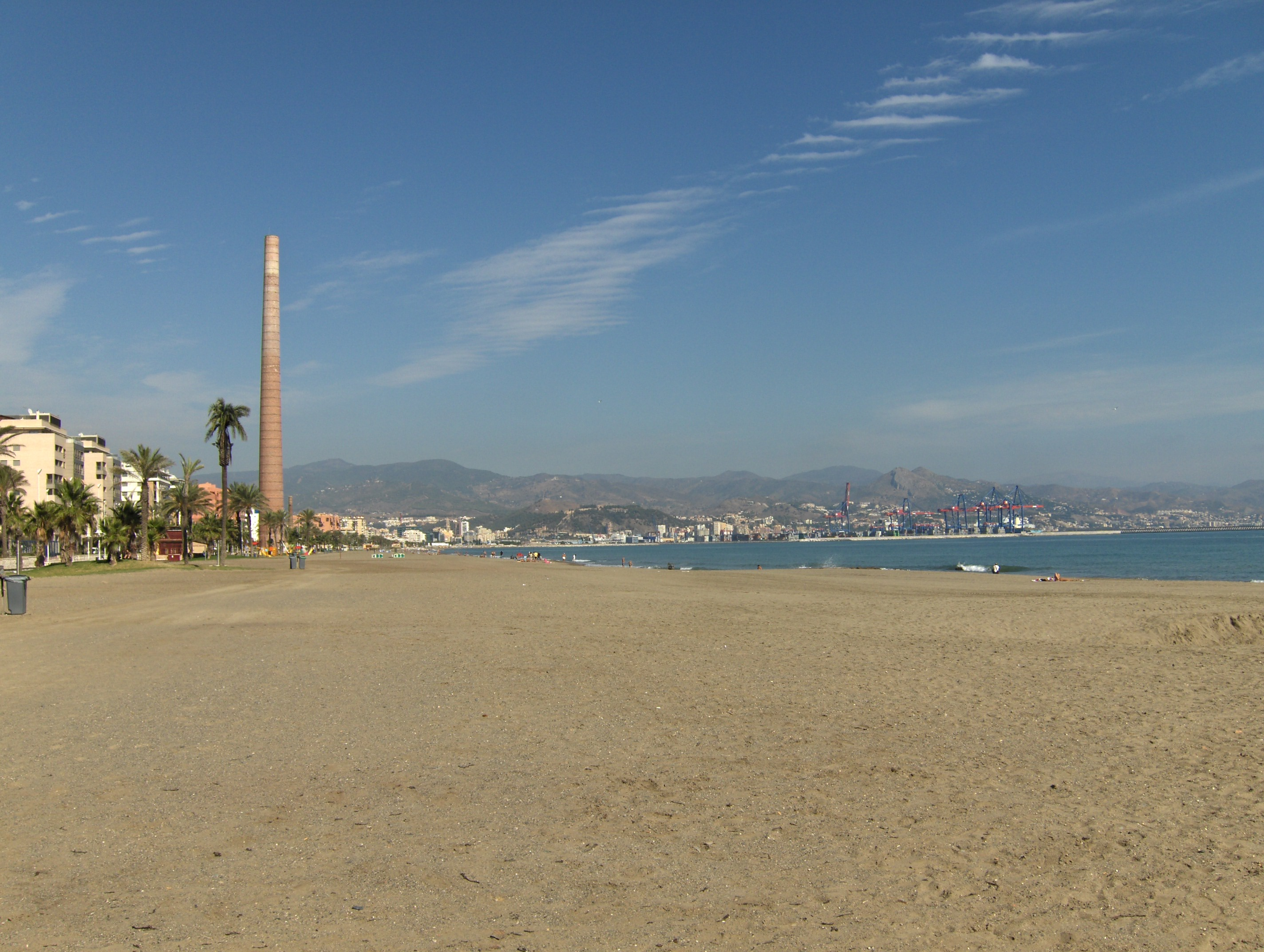 La Misericordia beach, Málaga, Spain